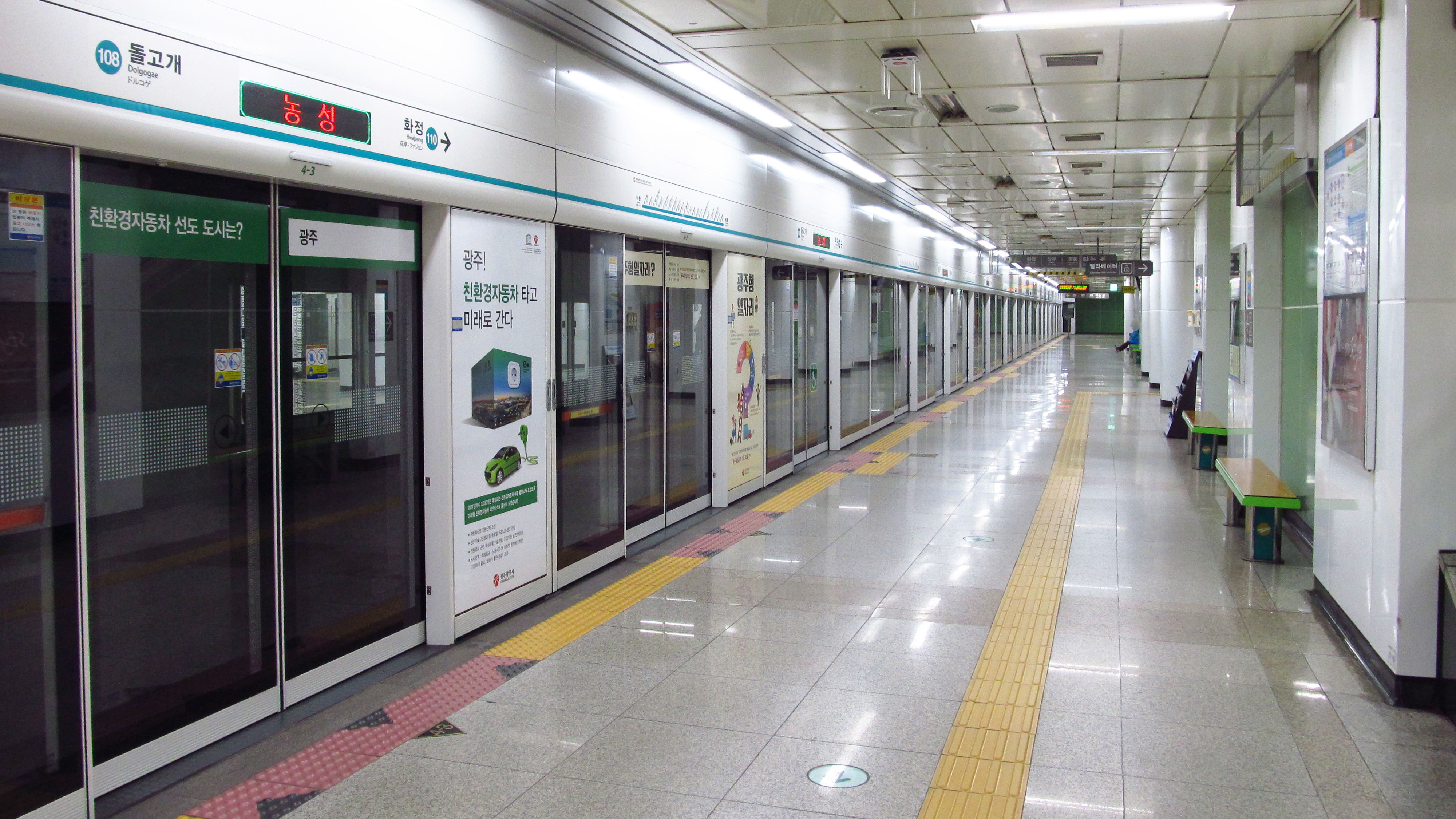 The platform at Nongseong Station on Gwangju Metro Line 1 in Seo-gu, Gwangju, Republic of Korea(South Korea)